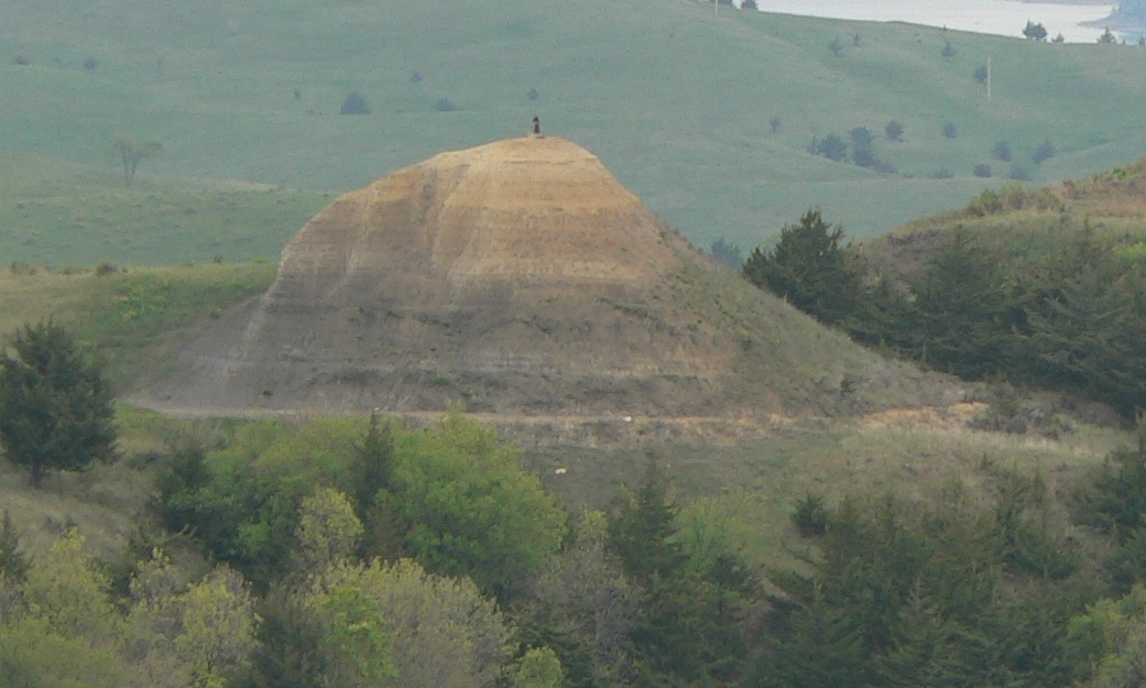 The Tower, a landform north of Lynch in Boyd County, Nebraska; seen from an overlook to the south. It is listed in the National Register of Historic Places because of its association with the Lewis and Clark Expedition. The Missouri River is visible in the upper right corner of the photo.